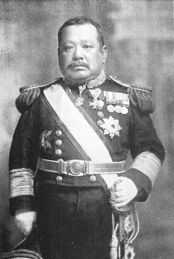 Keijiro Murakami